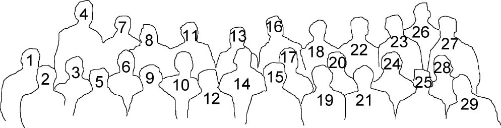 This graphics shows the participants of the fifth Solvay conference in 1927. It refers to the photograph Solvay conference 1927.jpg.